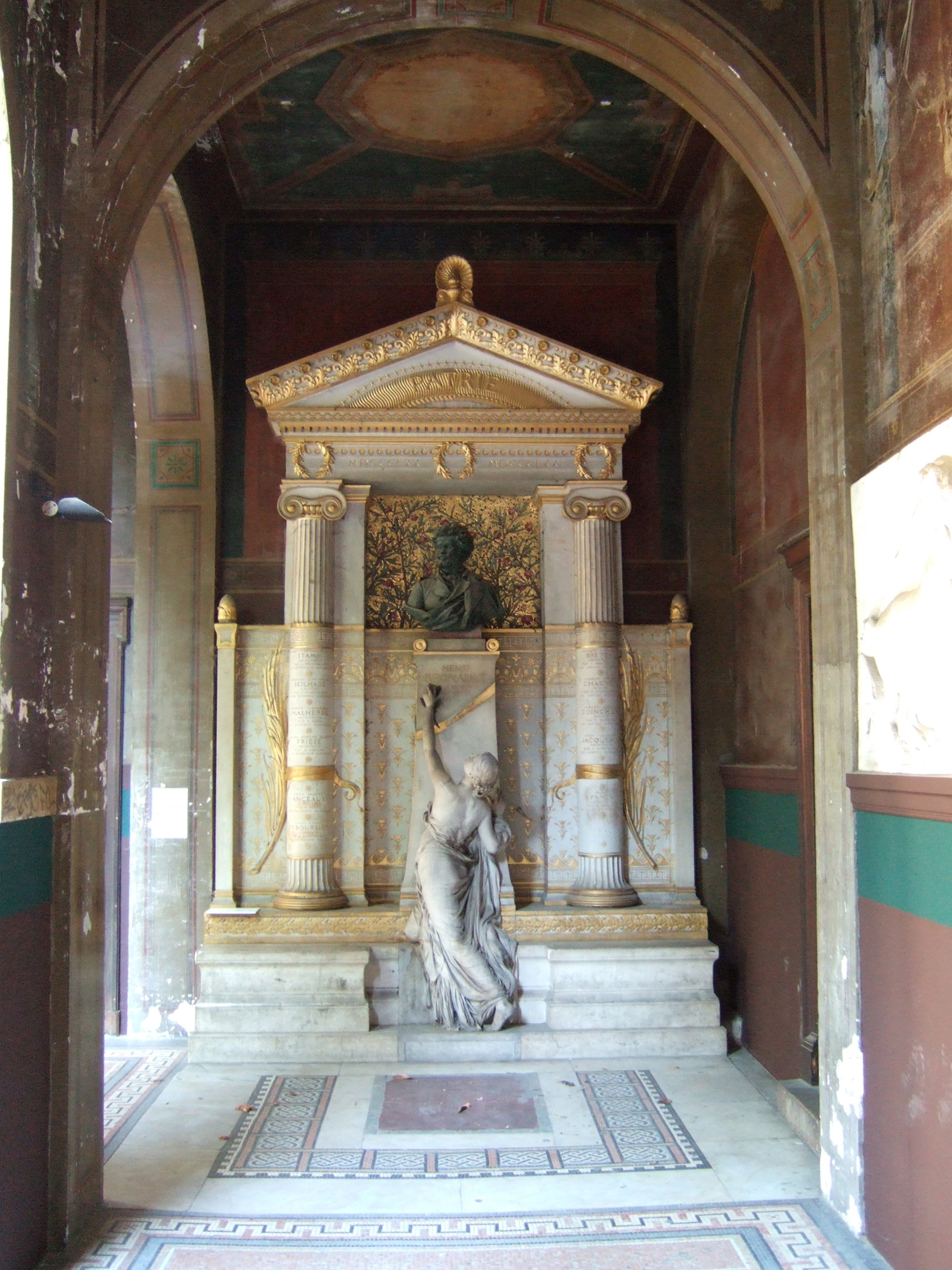 Ecole Nationale Superieure des Beaux-Arts, Paris, ENSBA, cour du murier